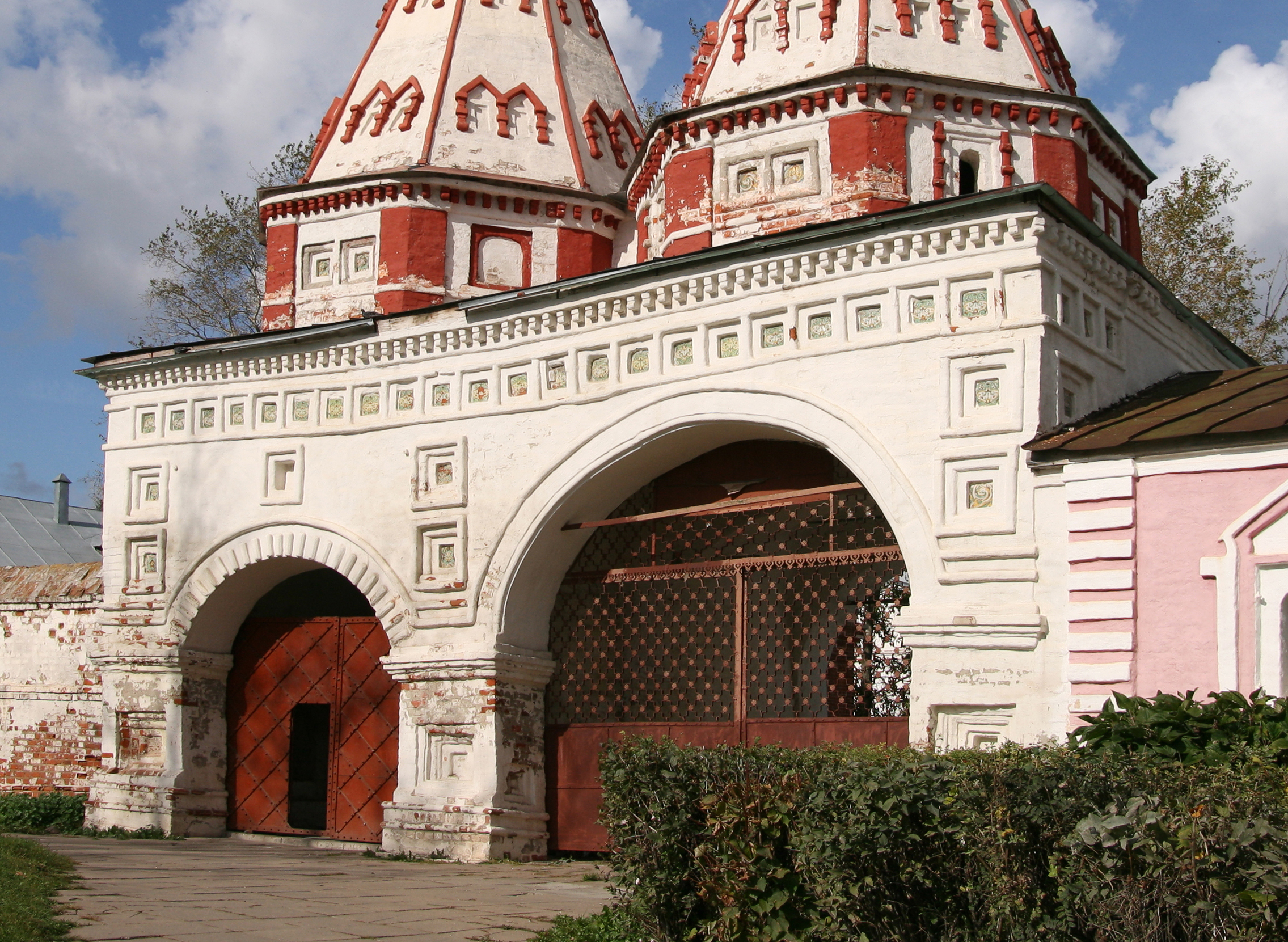 Holy Gate fragment of the Rizopolozhensky Monastery, Suzdal